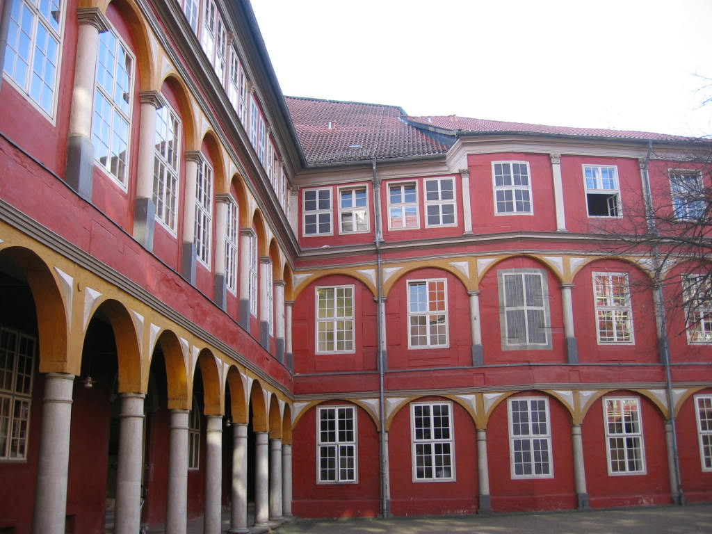 Wolfenbüttel, castle, yard